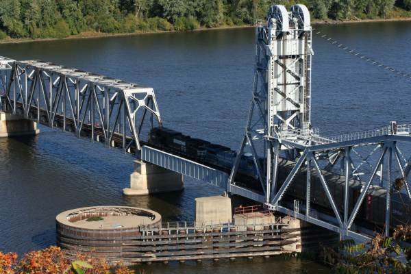 Wabash Bridge. Photo by Brem1964